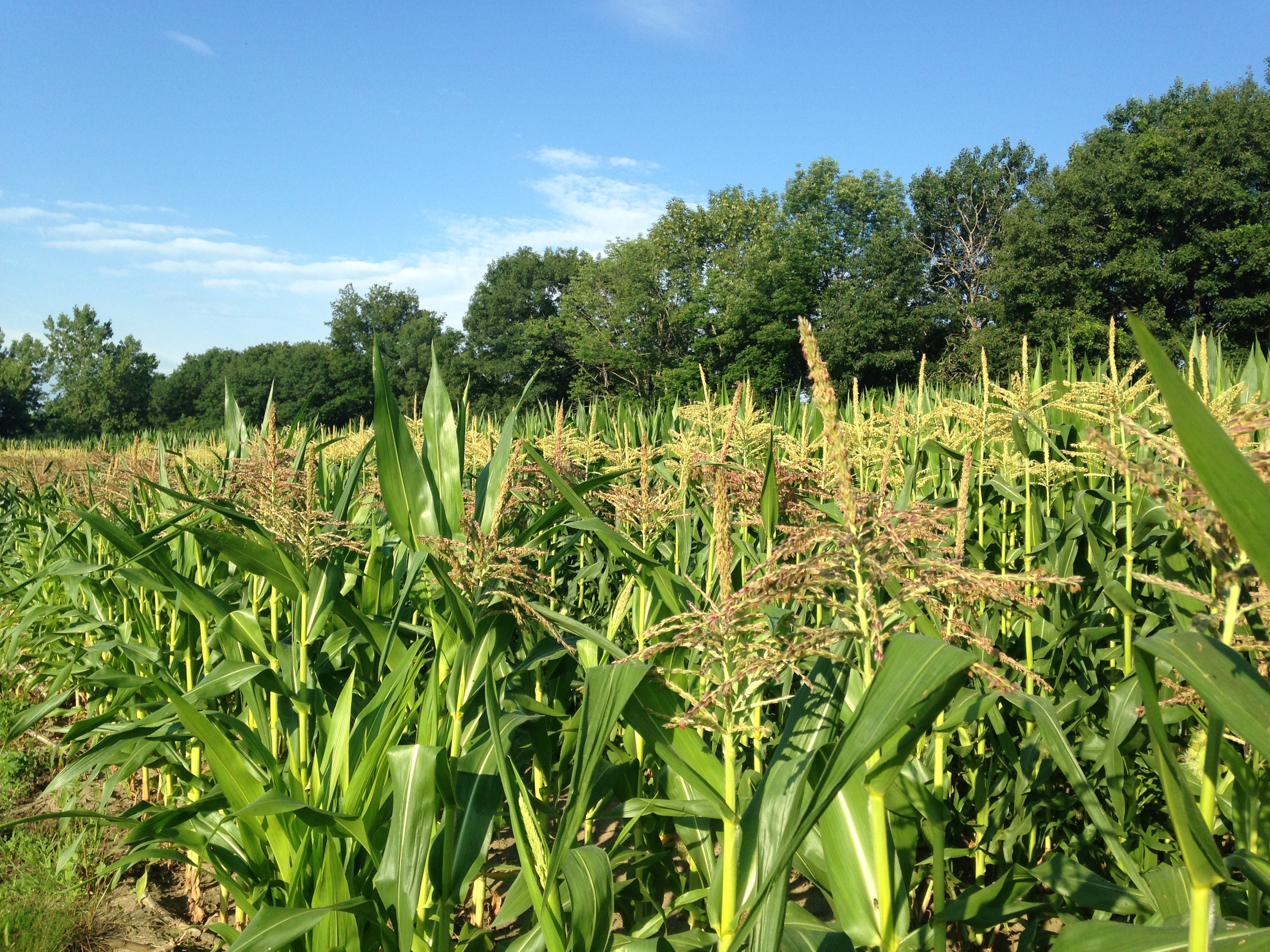 Stocks of corn growing in Westmoreland, New Hampshire, USA and in they month of July.